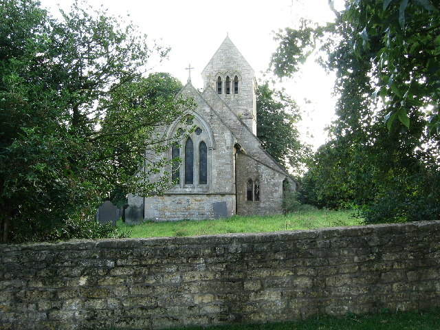 All Saints, Stroxton. A tiny church set on the edge of a field down a farm track.